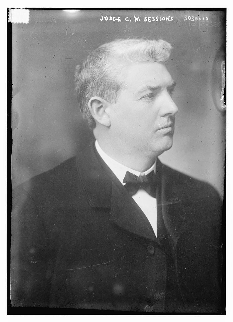 Judge C.W. Sessions (LOC) Bain News Service,, publisher. Judge C. W. Sessions in 1915 [between ca. 1910 and ca. 1915] 1 negative : glass ; 5 x 7 in. or smaller. Notes: Title from unverified data provided by the Bain News Service on the negatives or caption cards. Forms part of: George Grantham Bain Collection (Library of Congress). Format: Glass negatives. Repository: Library of Congress, Prints and Photographs Division, Washington, D.C. 20540 USA, General information about the Bain Collection is available at Persistent URL: Call Number: LC-B2- 3030-10